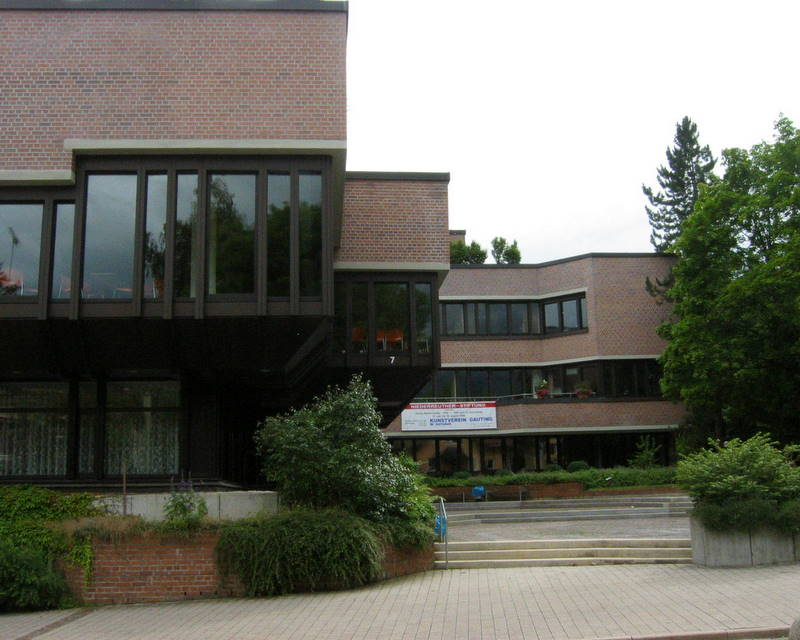 Town hall Gauting